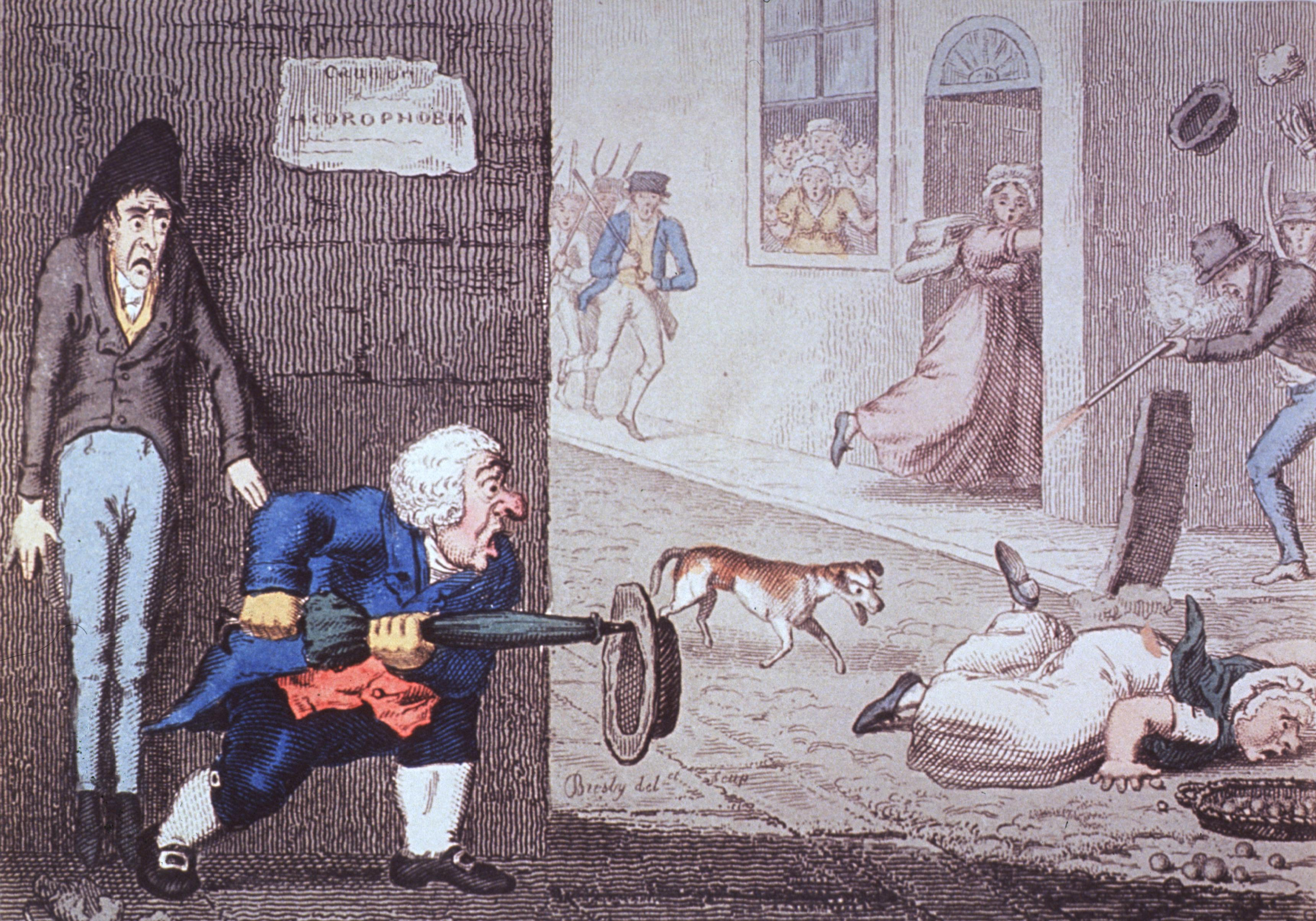 Author(s): Busby, T.L., artist Publication: [London: , 1826] Language(s): English Format: Still image Genre(s): Caricatures Abstract: A dog trotting down the street during hydrophobia scare is the cause of considerable fright; a woman dashes into a building, two men hide behind a wall, a woman has fallen in the street, a man fires a rifle, and others with guns and pitchforks approach. Extent: 1 print : 10 x 14 cm. Technique: etching, color NLM Unique ID: 101393130 NLM Image ID: A021450 Permanent Link